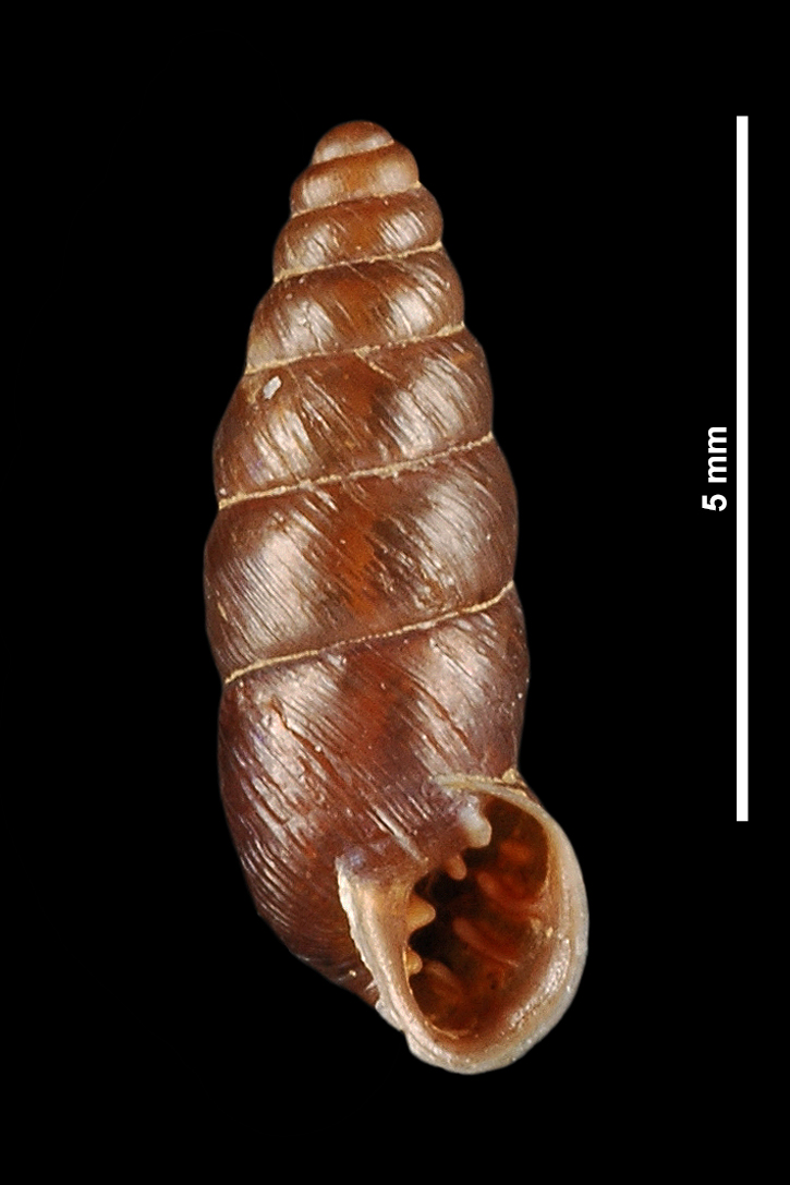 PRESERVED_SPECIMEN; Chondrina avenacea avenacea (Bruguière, 1792); Type status: N/A; Identified by: B.J. Gomez; Individual count: 1; Event date: N/A